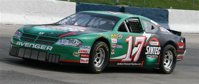 D.J. Kennington's 2009 NASCAR Canadian Tire Series car.